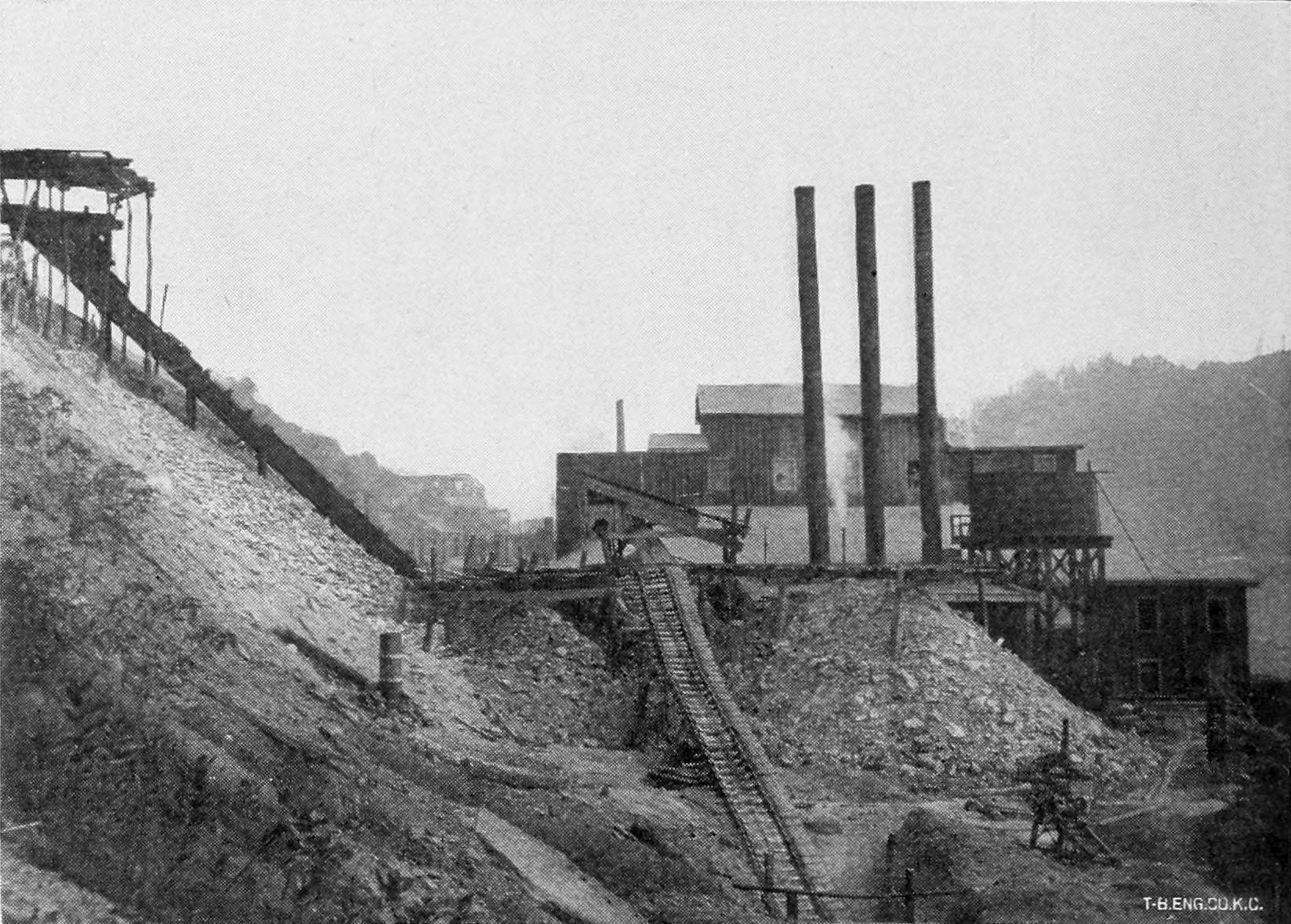 Upper and Lower Clay Mines at Etna Plant in New Cumberland, West Virginia.